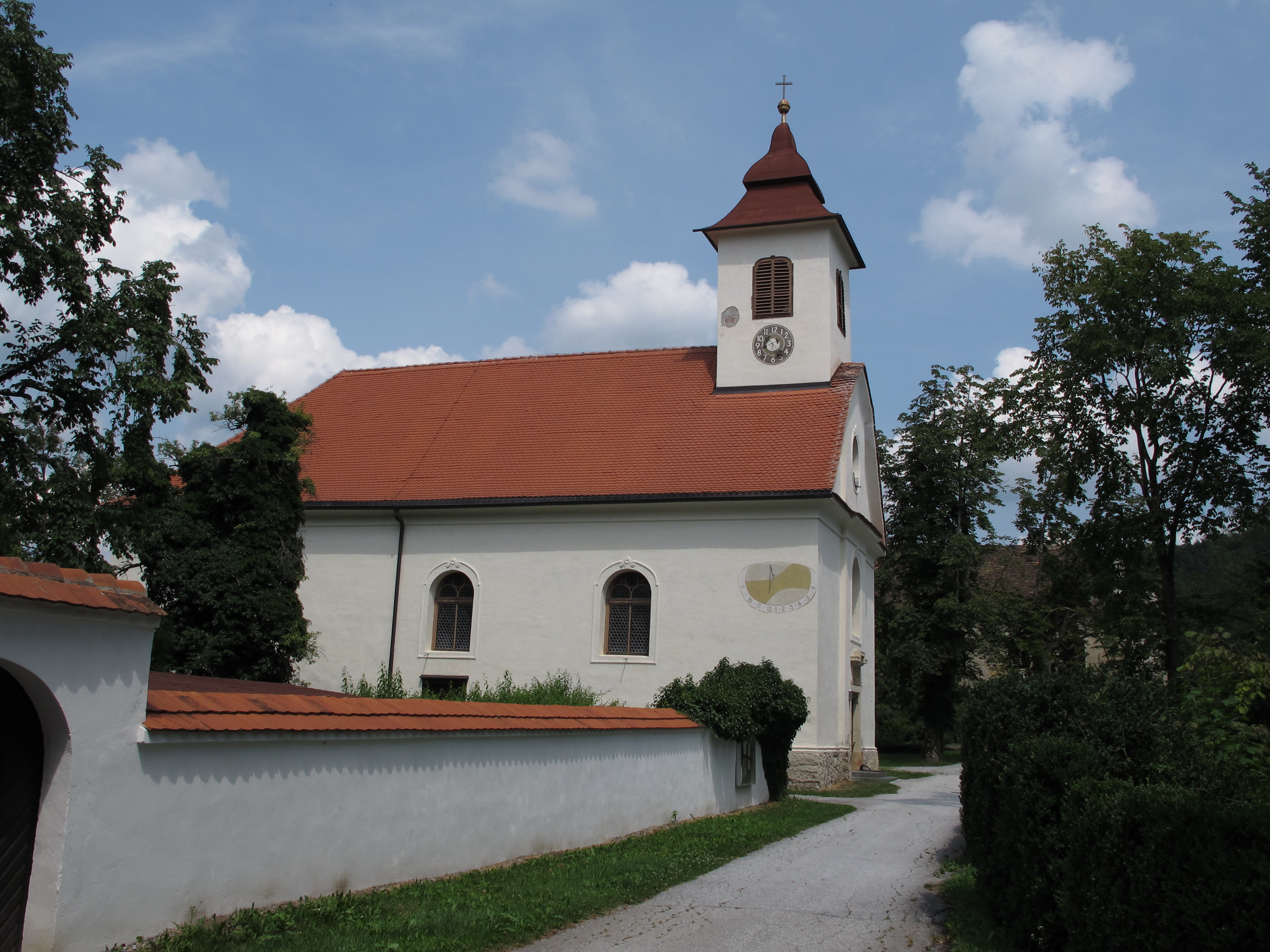 Church Gutenberg an der Raabklamm